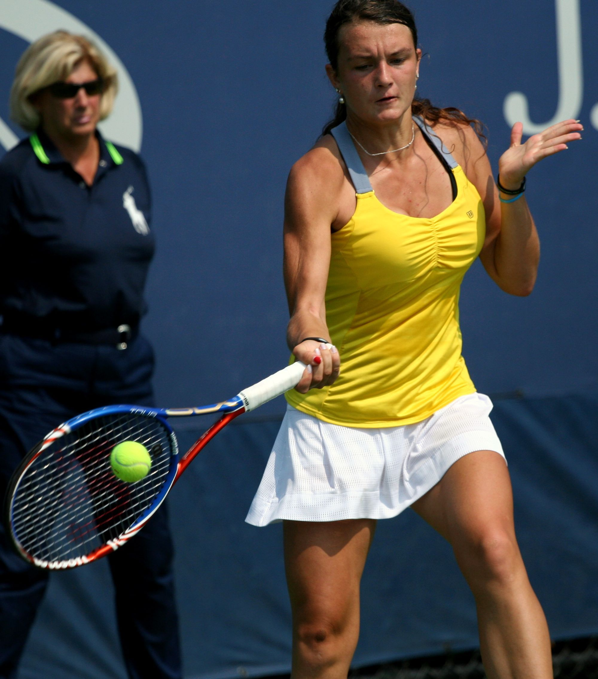 Jesika Malečková at the 2011 US Open